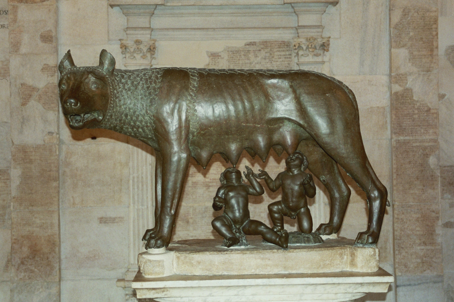 Description Romulus en Remus DateJanuary 2006SourceOwn workAuthorStinkzwam Romulus en Remus